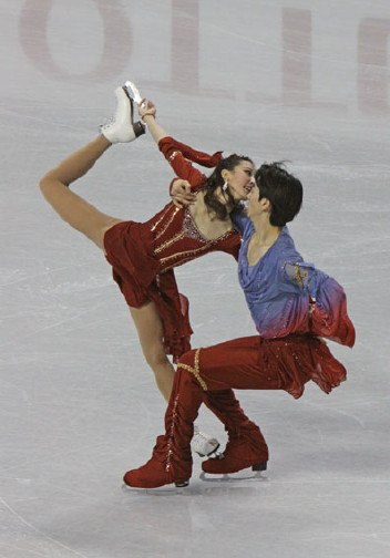 Wang Jiayue & Gao Chongbo (CHN) perform a dance lift during their free dance program at the 2009 Four Continents Championships. They placed 9th in this segment of the competition and 9th overall.